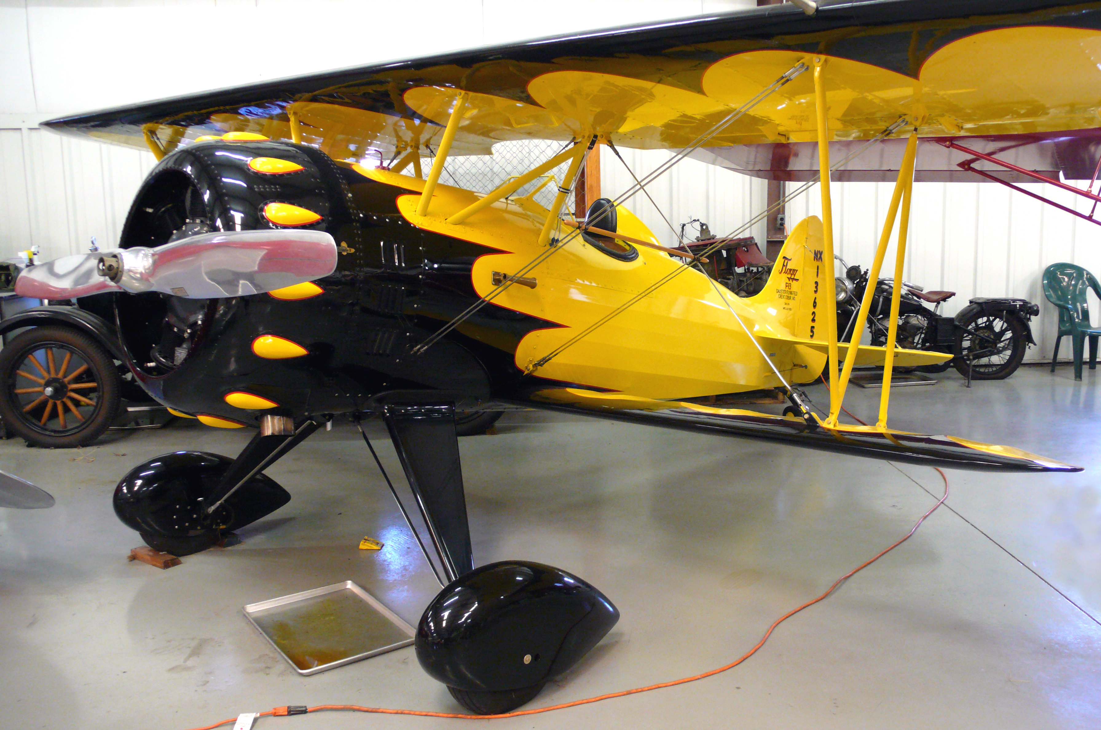 1933 F-13 Flagg biplane